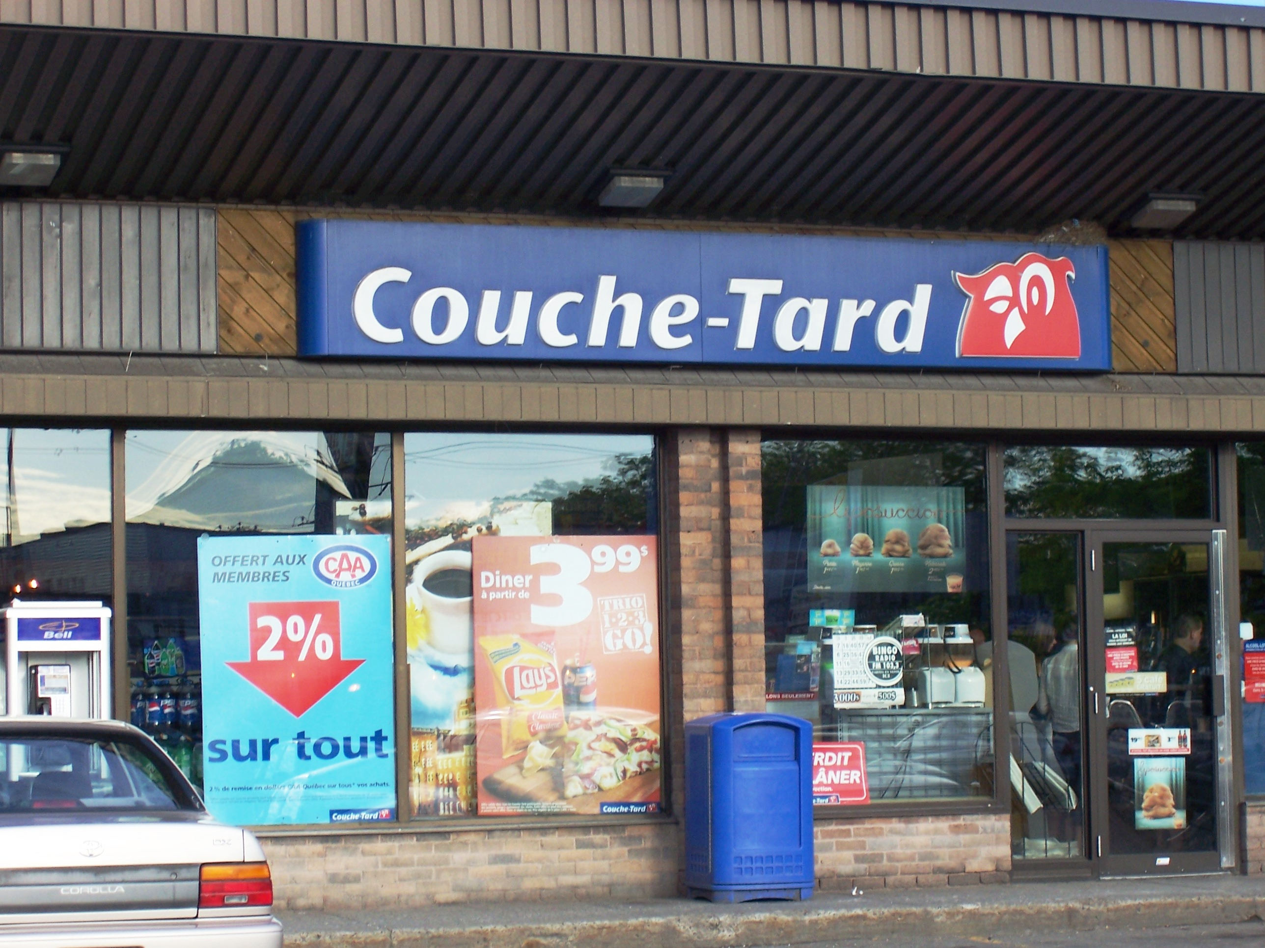 Photo of a Couche-tard convenience store in Montreal, Quebec, Canada.